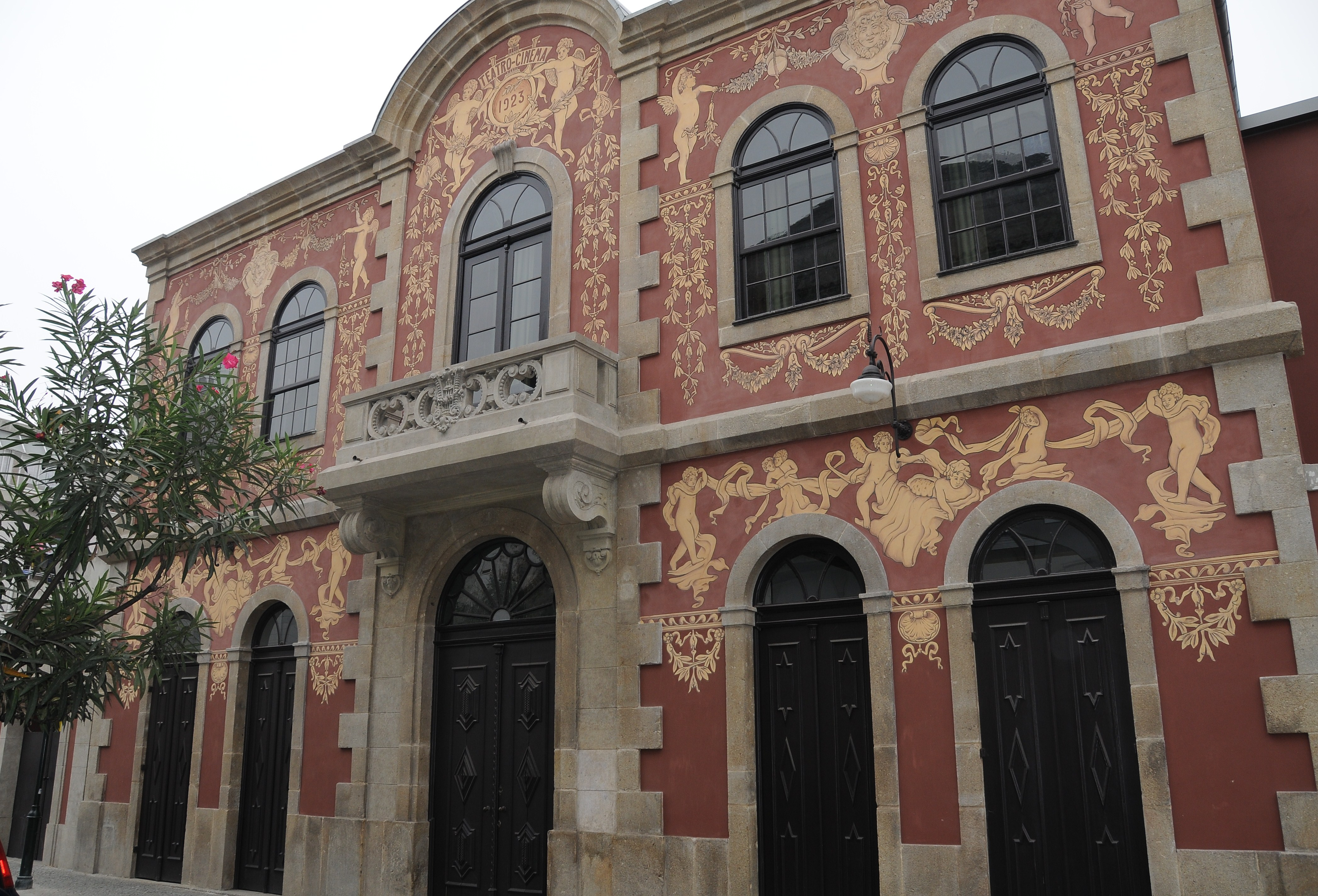 The Fafe Theater, in Fafe Portugal